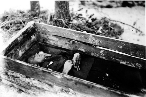 One of 300 images declassified by the Finnish government in 2006 showing the Winter War and Continuation War against the Soviet Union from 1939-45.